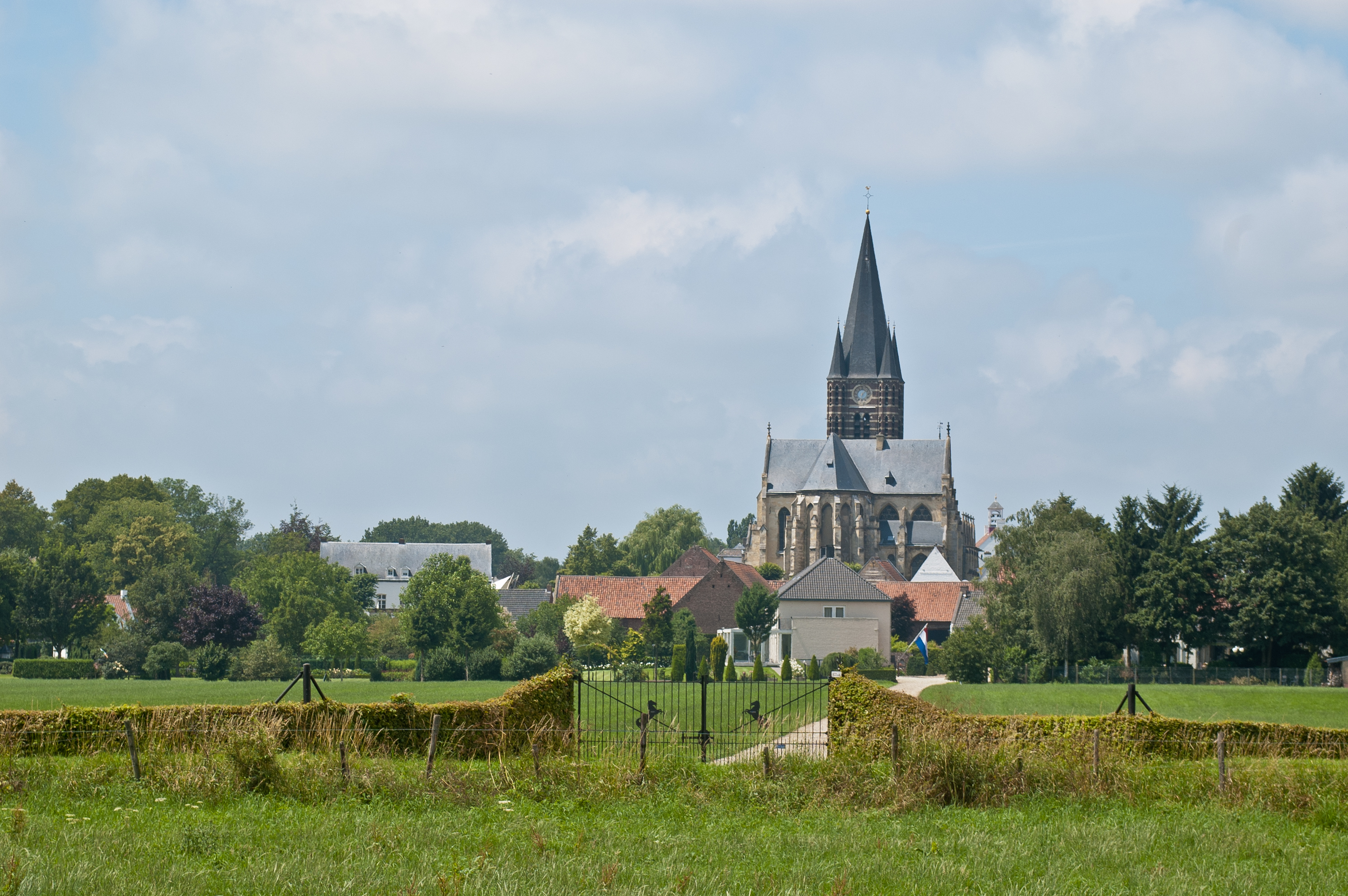 View on Thorn, Netherlands, and the church of the former imperial monastery (Reichsstift Thorn)